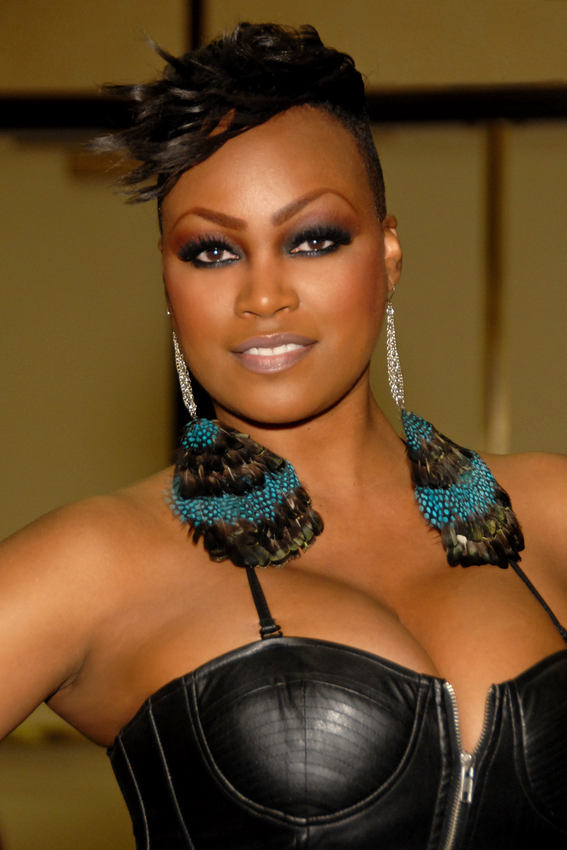 Qiana Chase, Los Angeles, CA on October 1, 2011 - Photo by Glenn Francis of